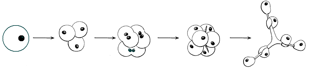 Synthesis of a triaxon spicule in Calcarea